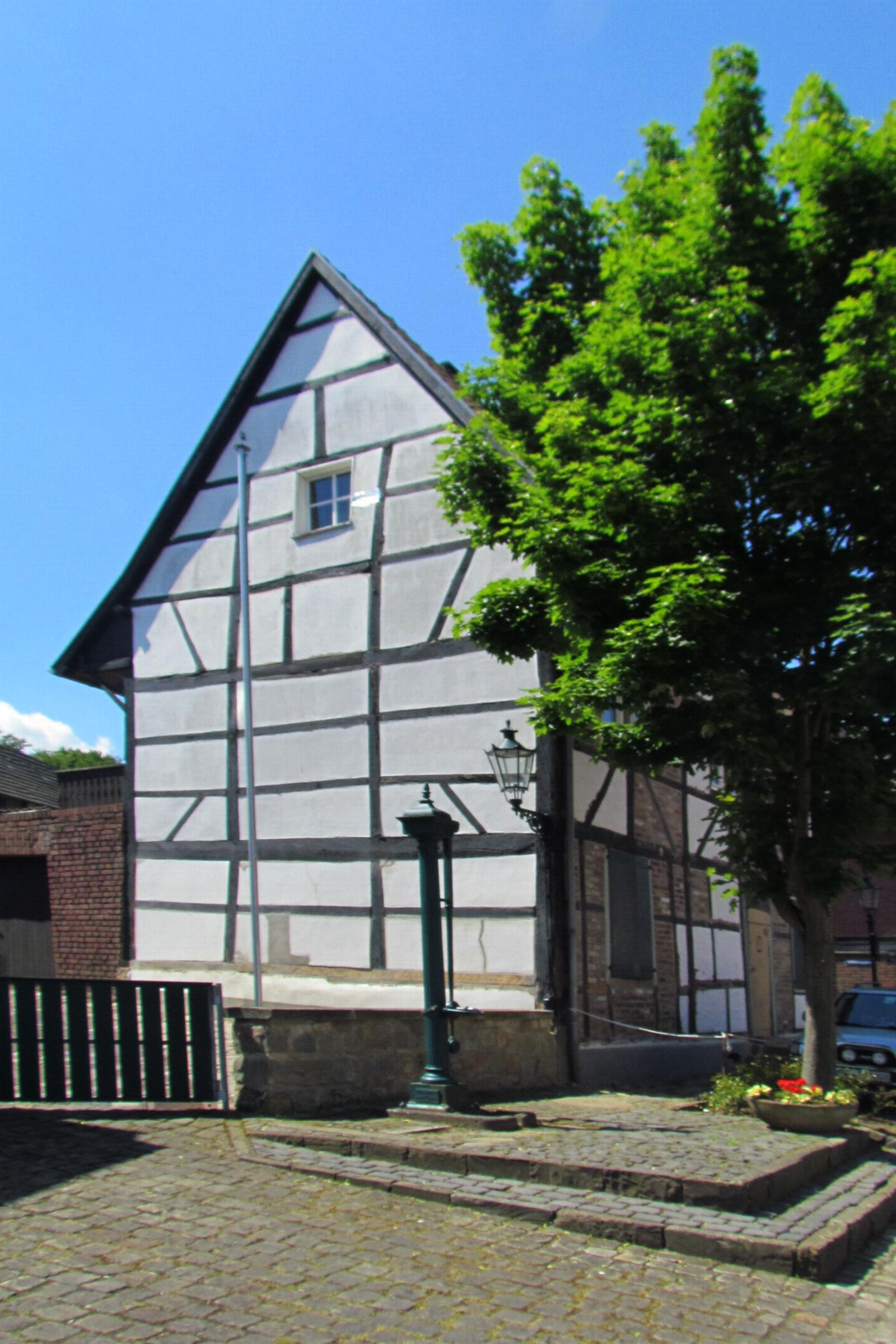 This is a photograph of an architectural monument.It is on the list of cultural monuments of Korschenbroich